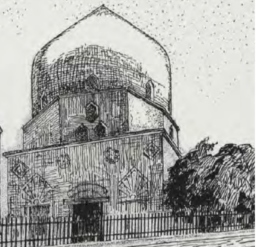 the tomb of Shagarat al-Durr